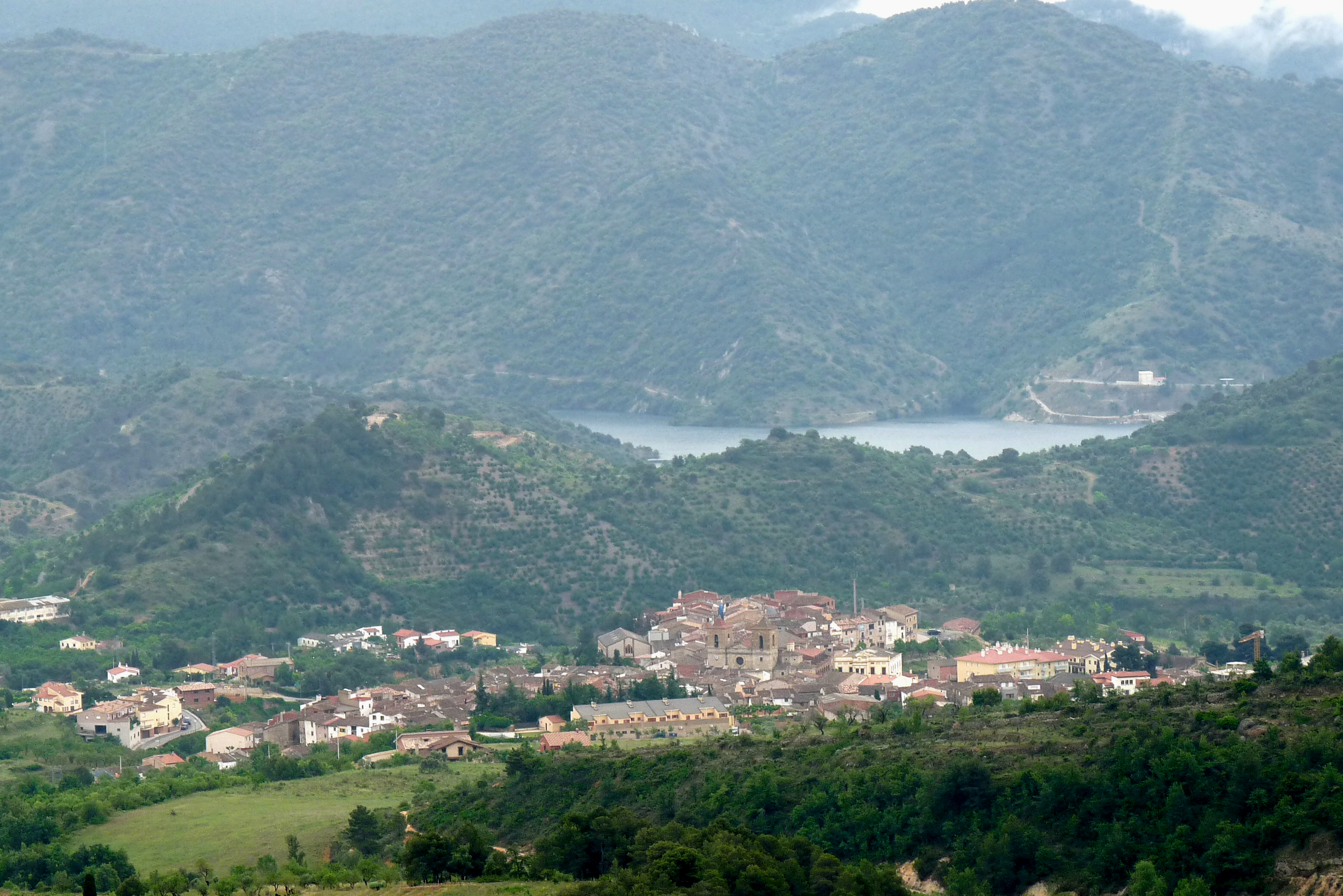 Cornudella from the Montsant. The reservoir of Siurana, behind.